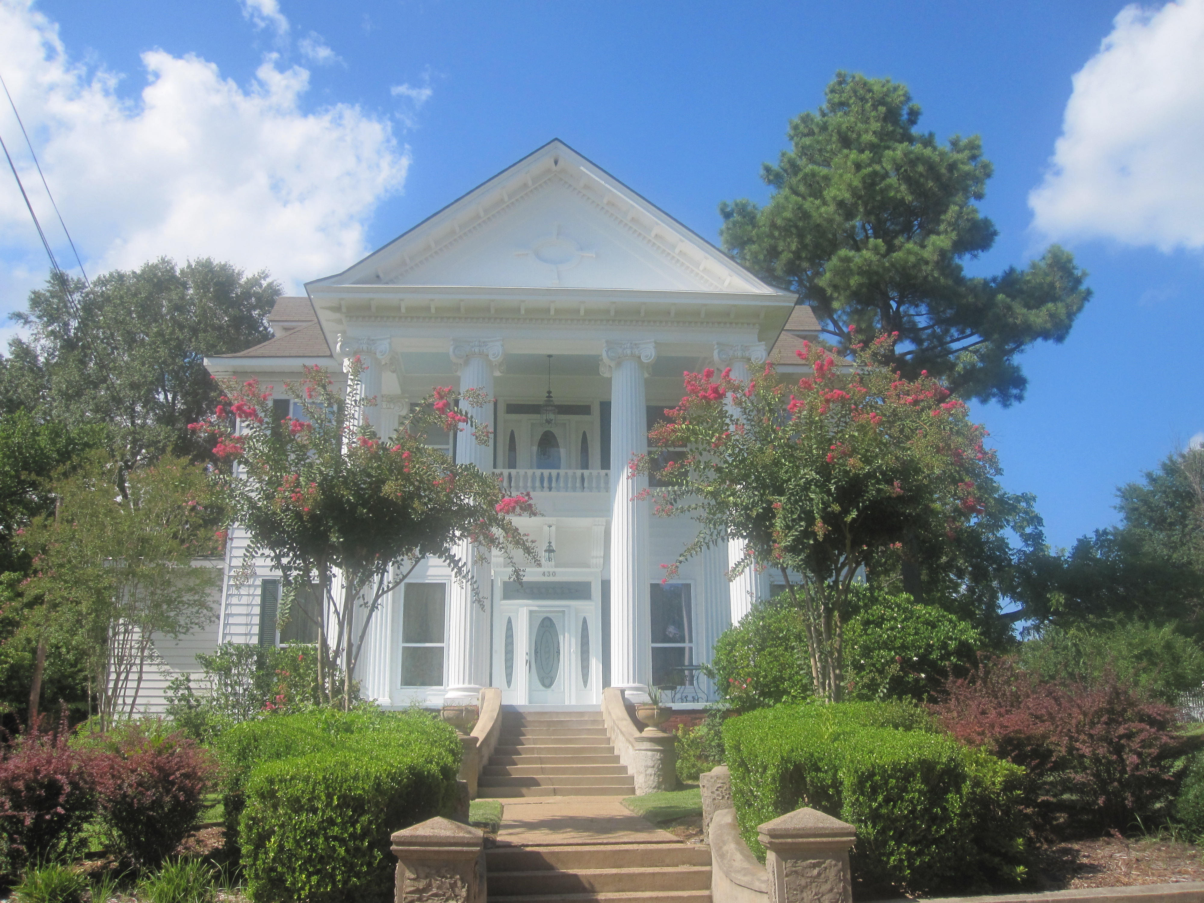 Historic house on Cleaveland Street n Camden, AR IMG_2261.JPG